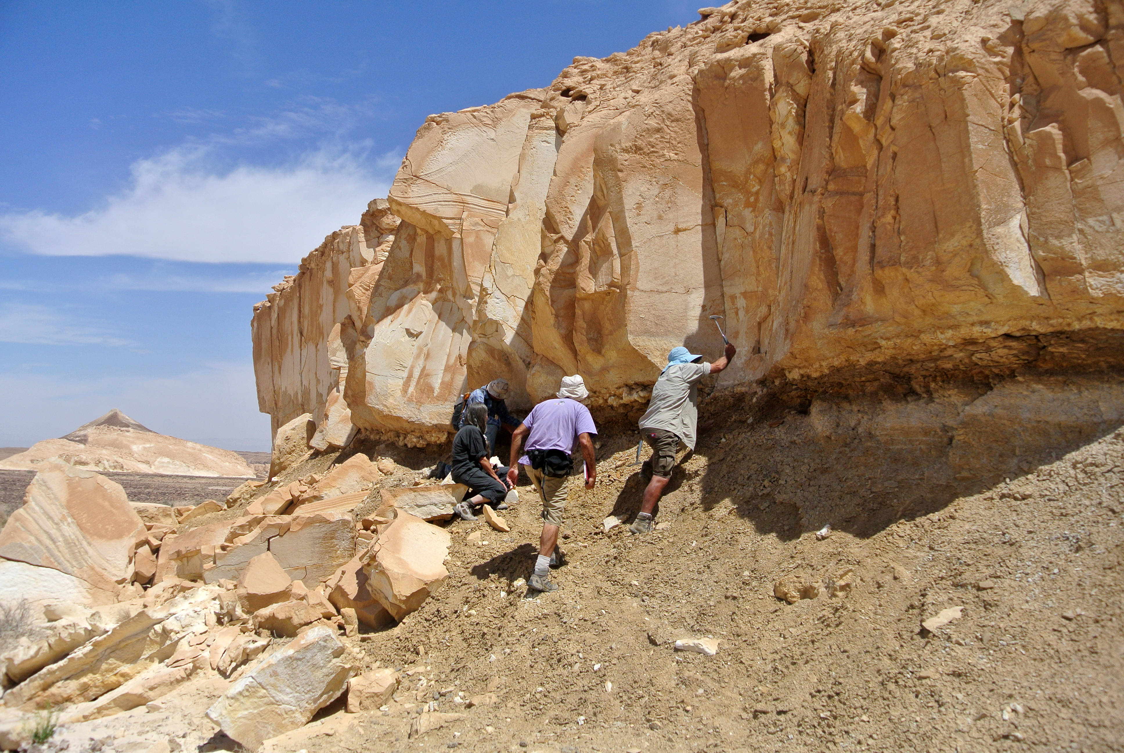 Menuha Formation at Wadi Zihor, Negev, southern Israel. Boundary of M-2 and M-3.